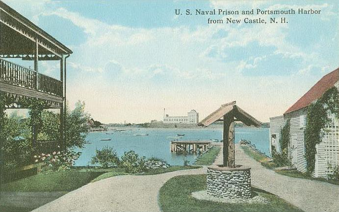 U. S. Naval Prison and Portsmouth Harbor from New Castle, New Hampshire. This was the view from the Hotel Curtis on Cranfield Street.